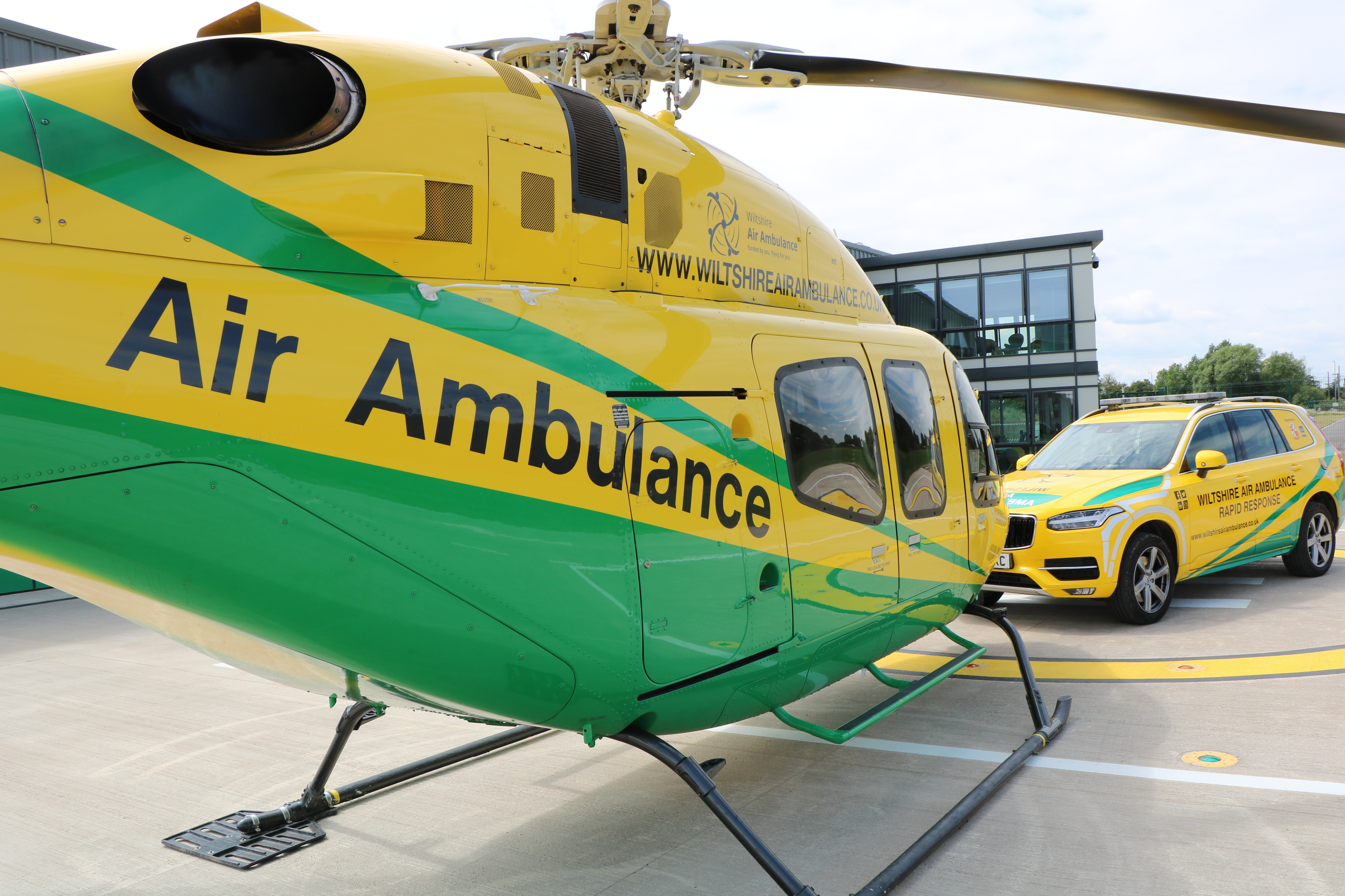 Wiltshire Air Ambulance's Helicopter and Rapid Response Vehicle